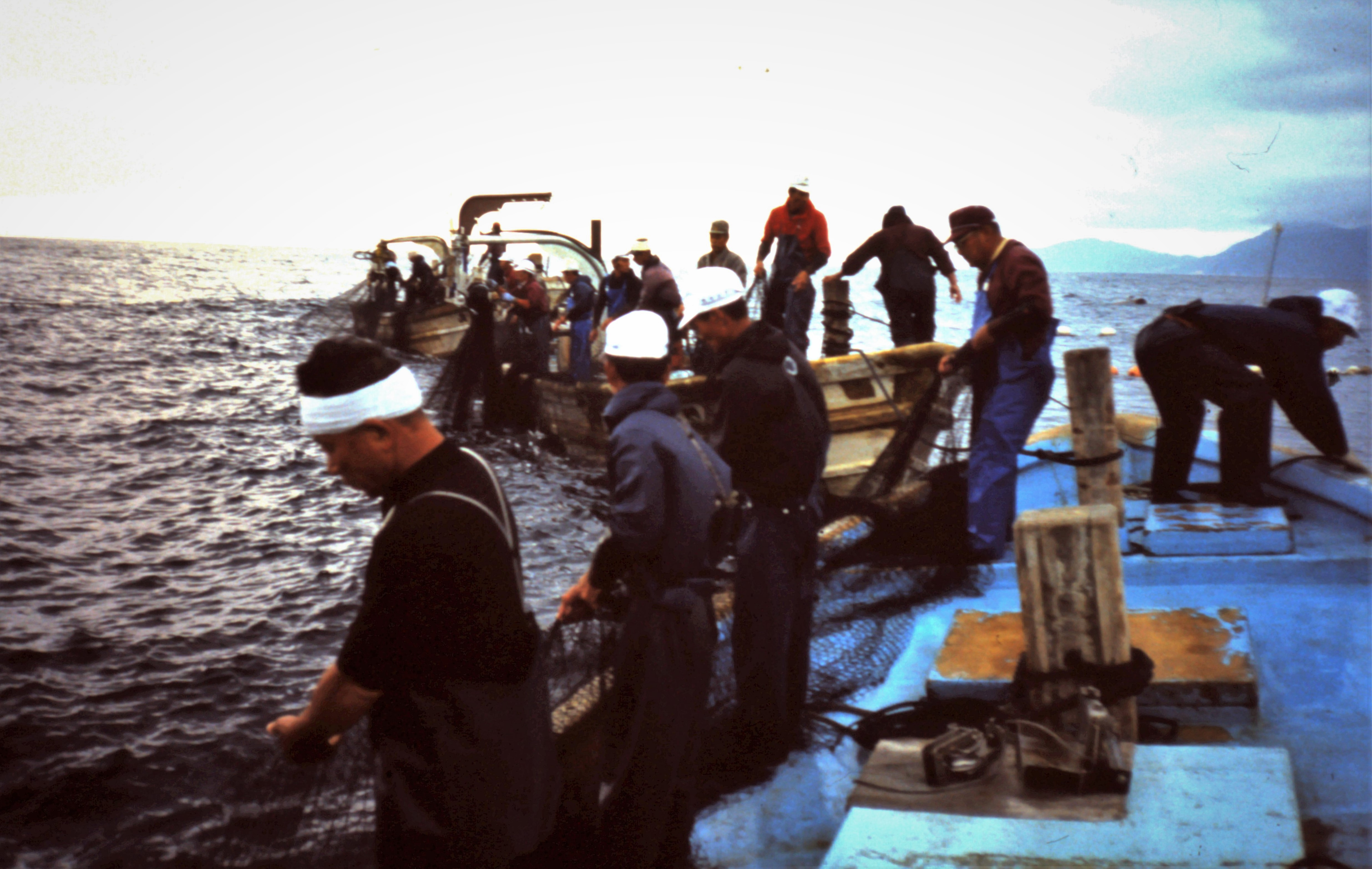 Early morning and middle afternoon the members of the fishermen's cooperative (Gyogyo kyodo kumiai, 漁業協同組合) manually pulled up their static coastal section of nets to collect fish for sorting and preparing for restaurants and wholesale markets.